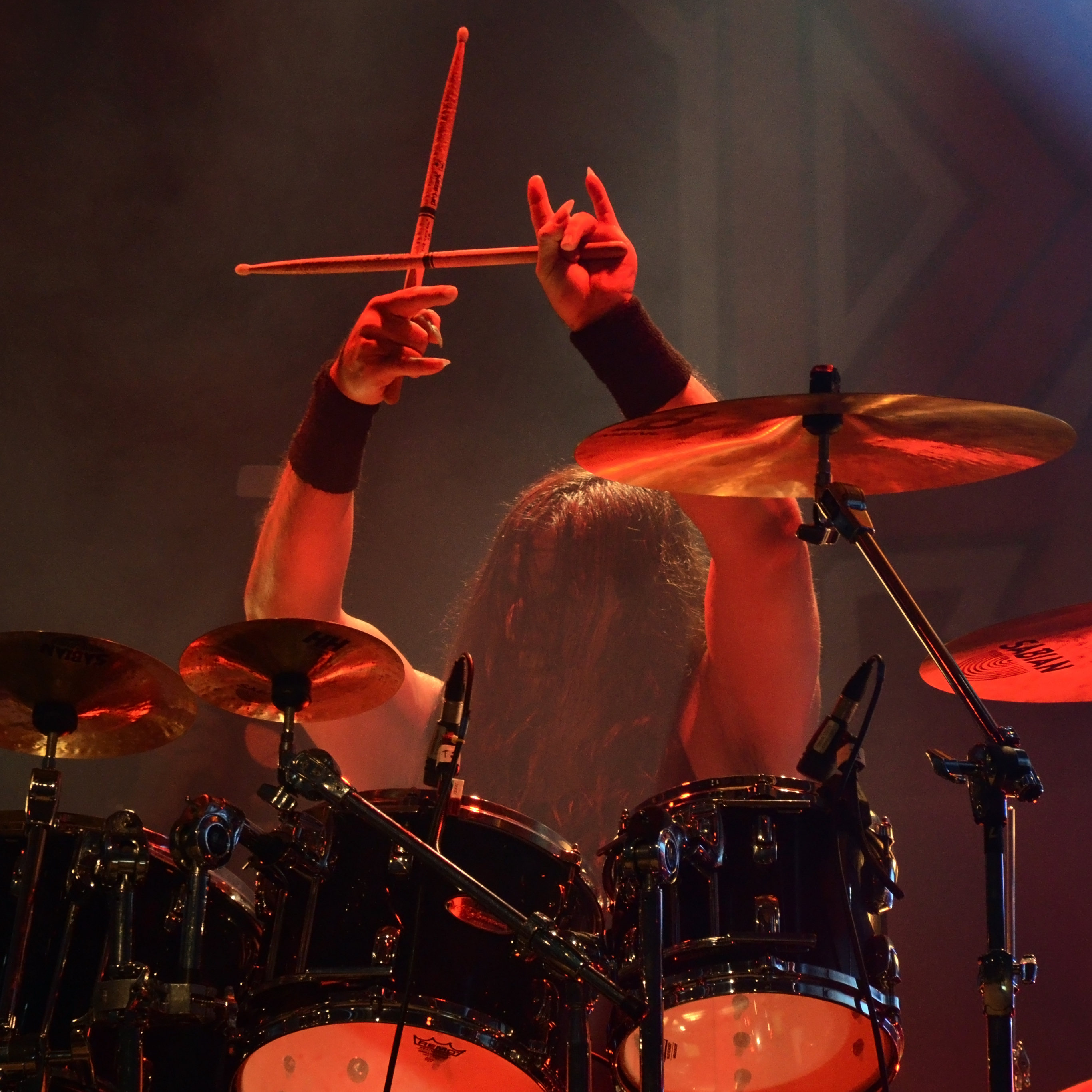 Gene Hoglan, the drummer of Death (DTA), performing at the Motocultor Festival, in Saint-Nolff ( France ), the 15th of August 2015. At the end of the concert, he crosses the drum-sticks as an inverted Christian cross.